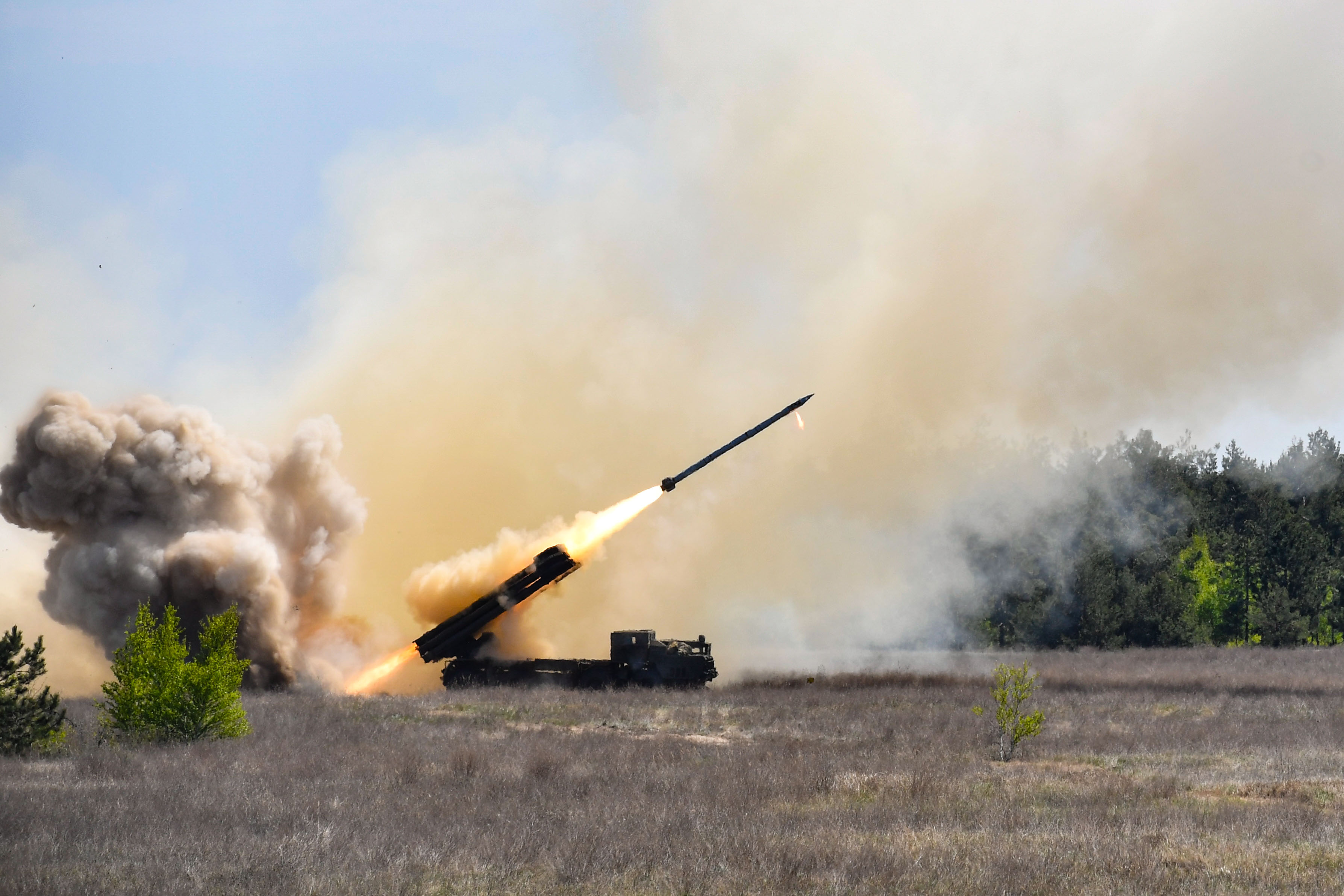 Vilkha MLRS final tests